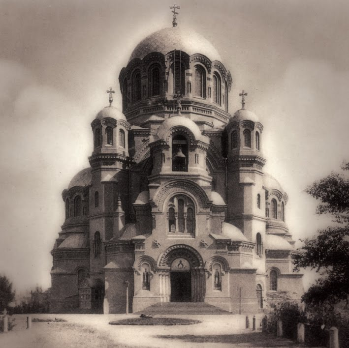 Kazan Cathedral, Orenburg, Russian Empire